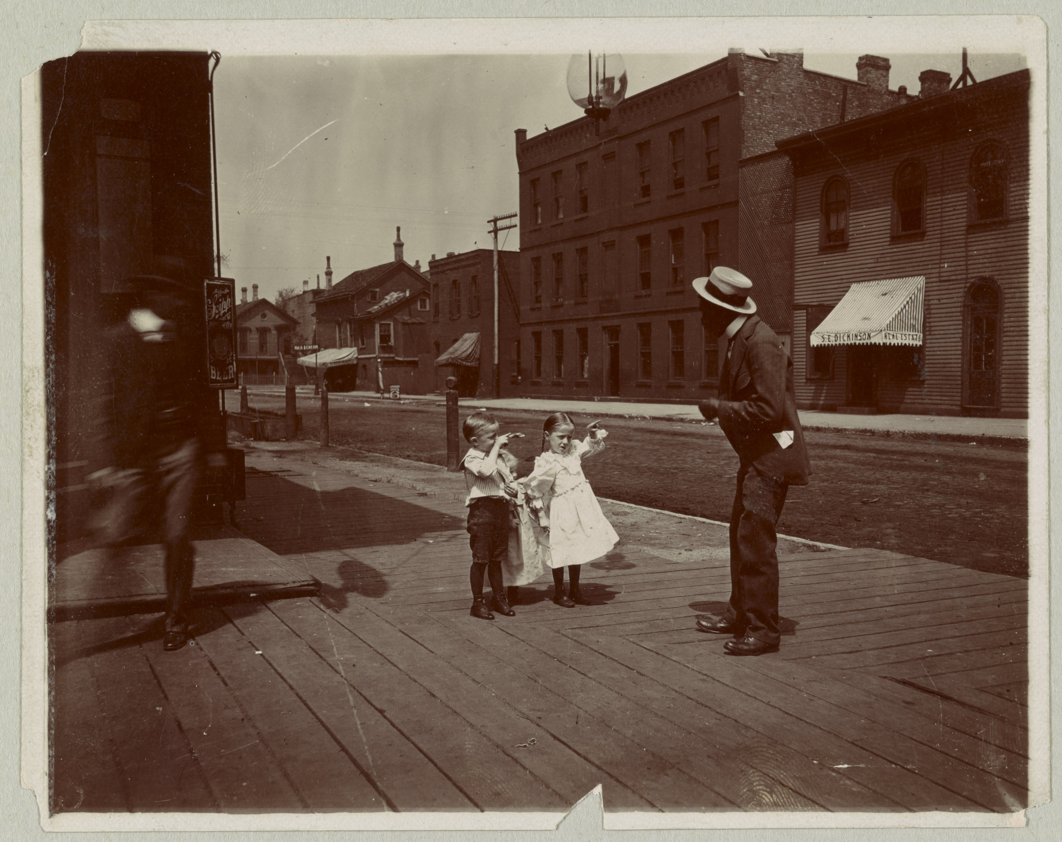 Title: "Coon. Coon. Coon" Abstract/medium: 1 photograph : print ; sheet 10 x 13 cm.